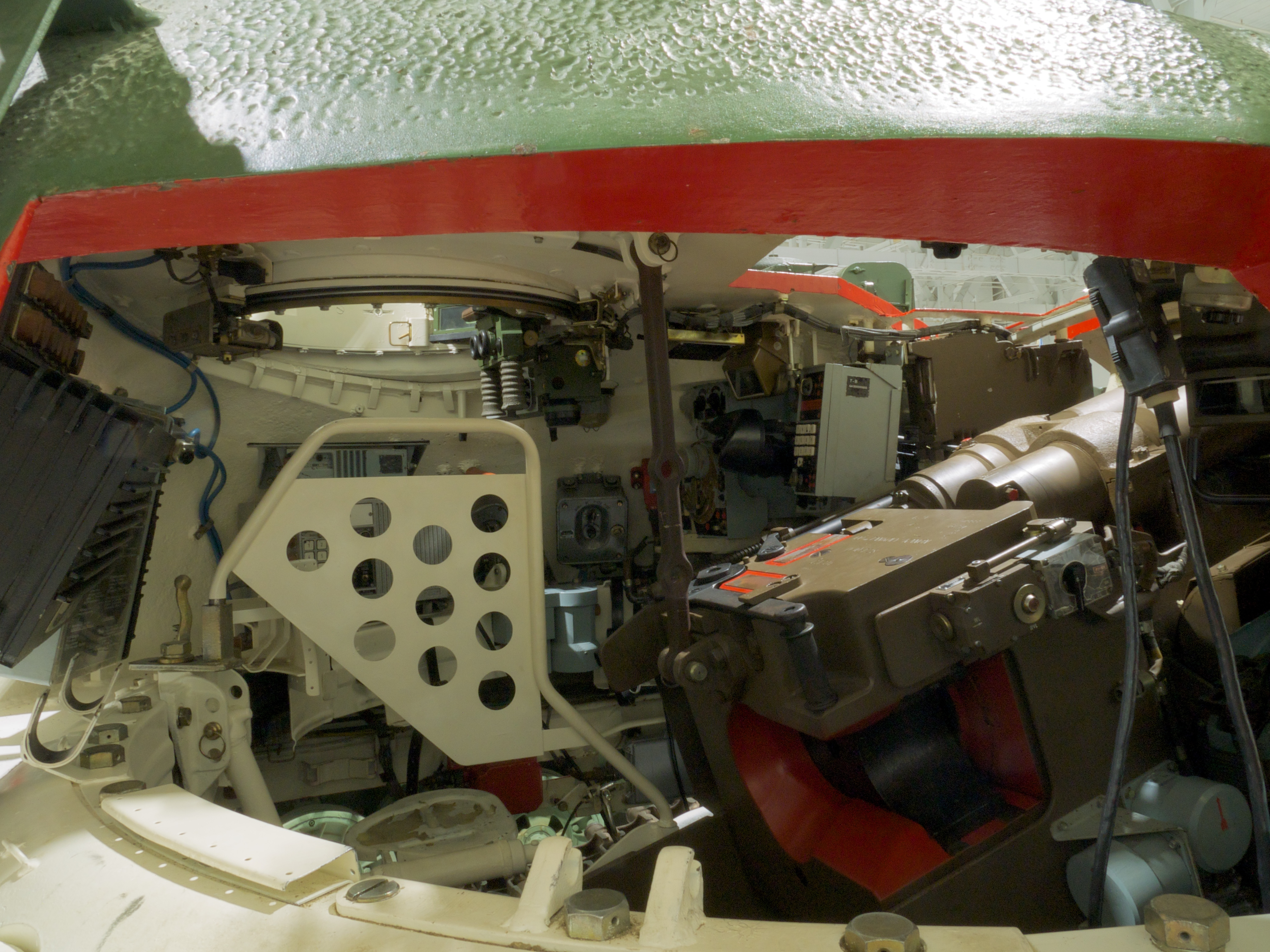 East German T-55 displayed at Base Borden Military Museum. This example was a cut-away model for training purposes.